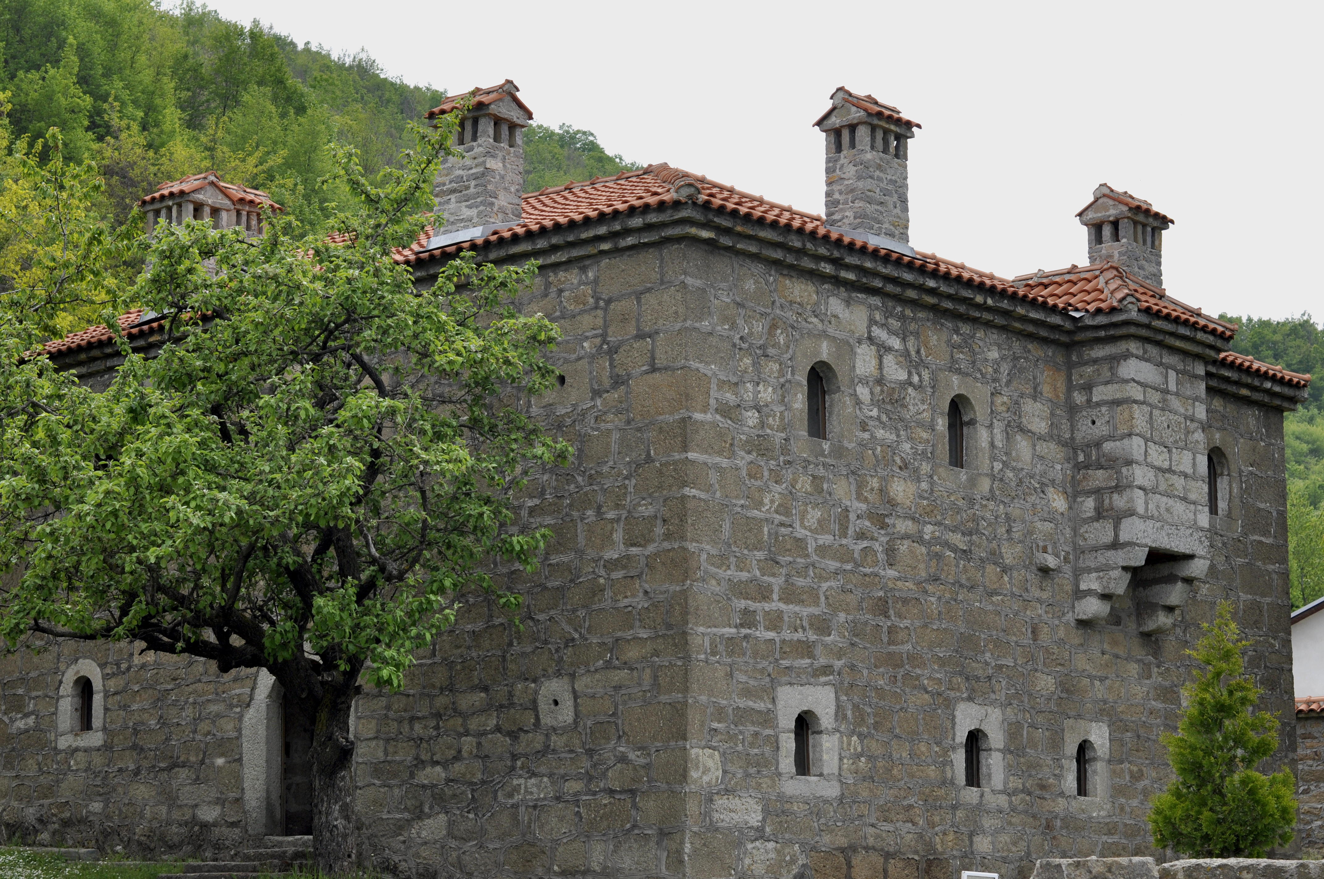 Boletin (3)